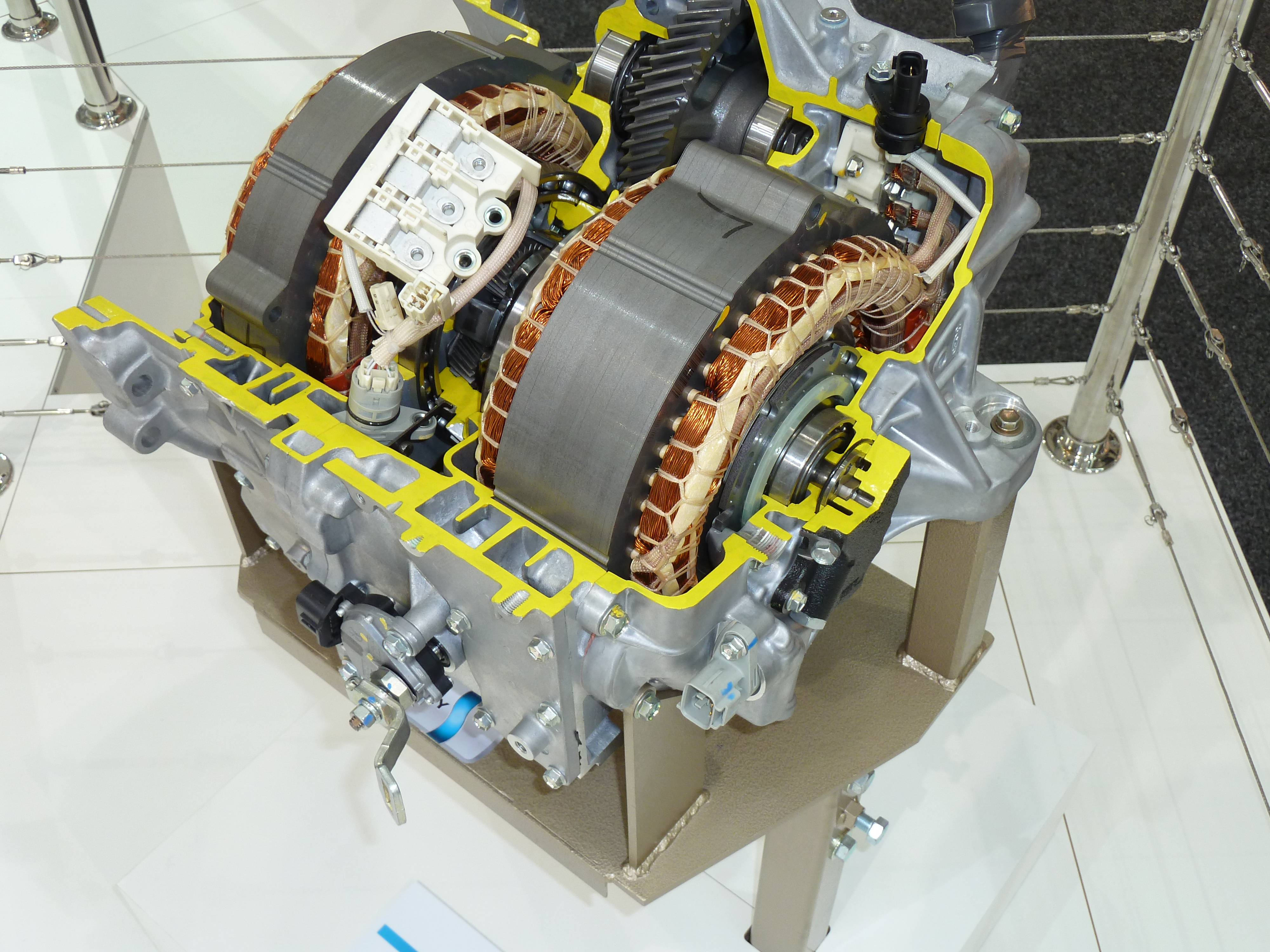 Toyota electronic continuously variable transmission (e-CVT). Photographed at the 2010 Australian International Motor Show, Sydney, New South Wales, Australia.